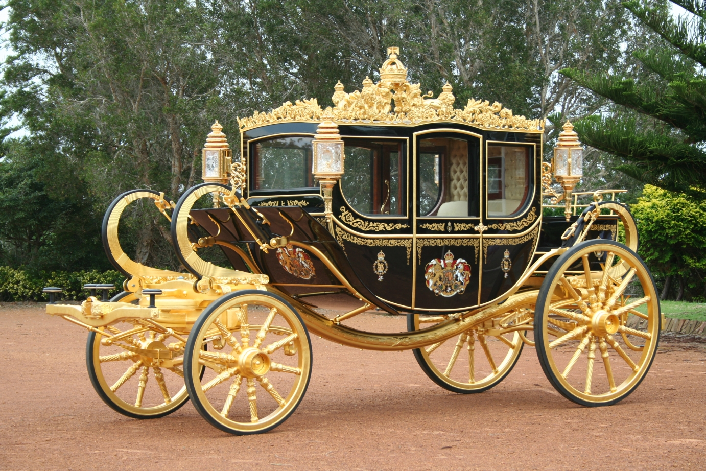 Image of State Coach Britannia